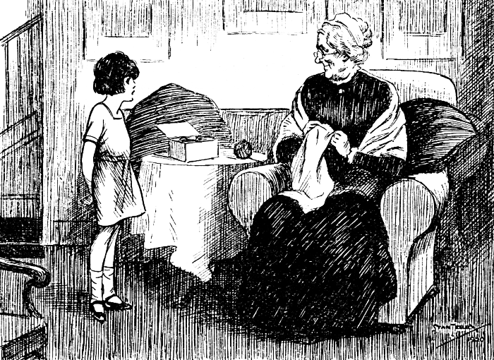 Betty. "Grandma, I know my twelve times."Grandma. "Do you, dear? Well, what are twelve times thirteen?"Betty. "Don’t be silly, Grandma. There isn’t such a thing."Multiplication table joke from Punch, or the London Charivari, Volume 159, October 27, 1920